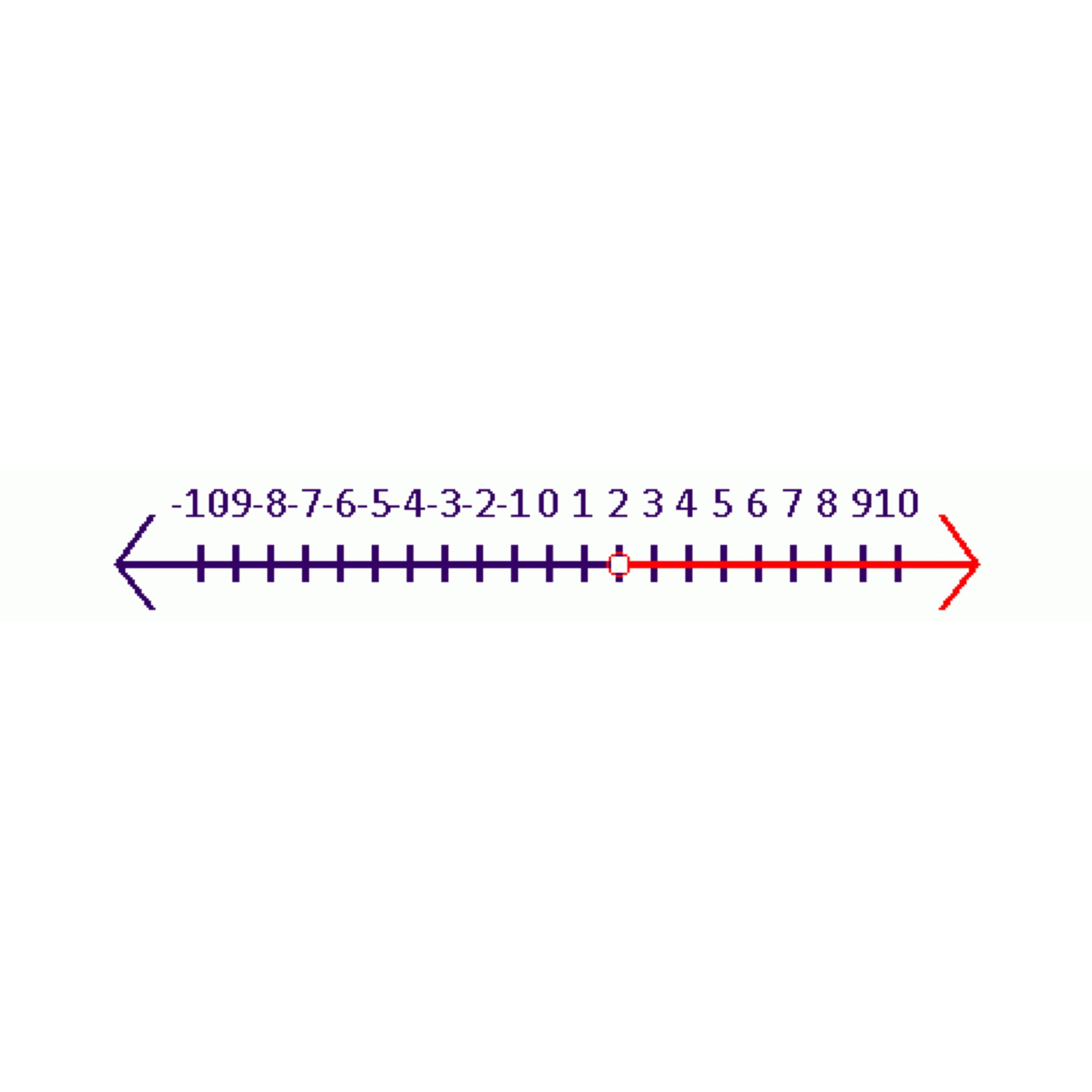 I made this photo to give an example of inequality